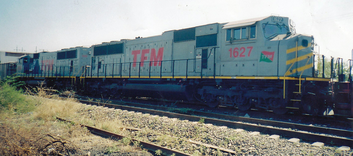 A pair of SD70MAC in Nueva Italia station in Michoacan state